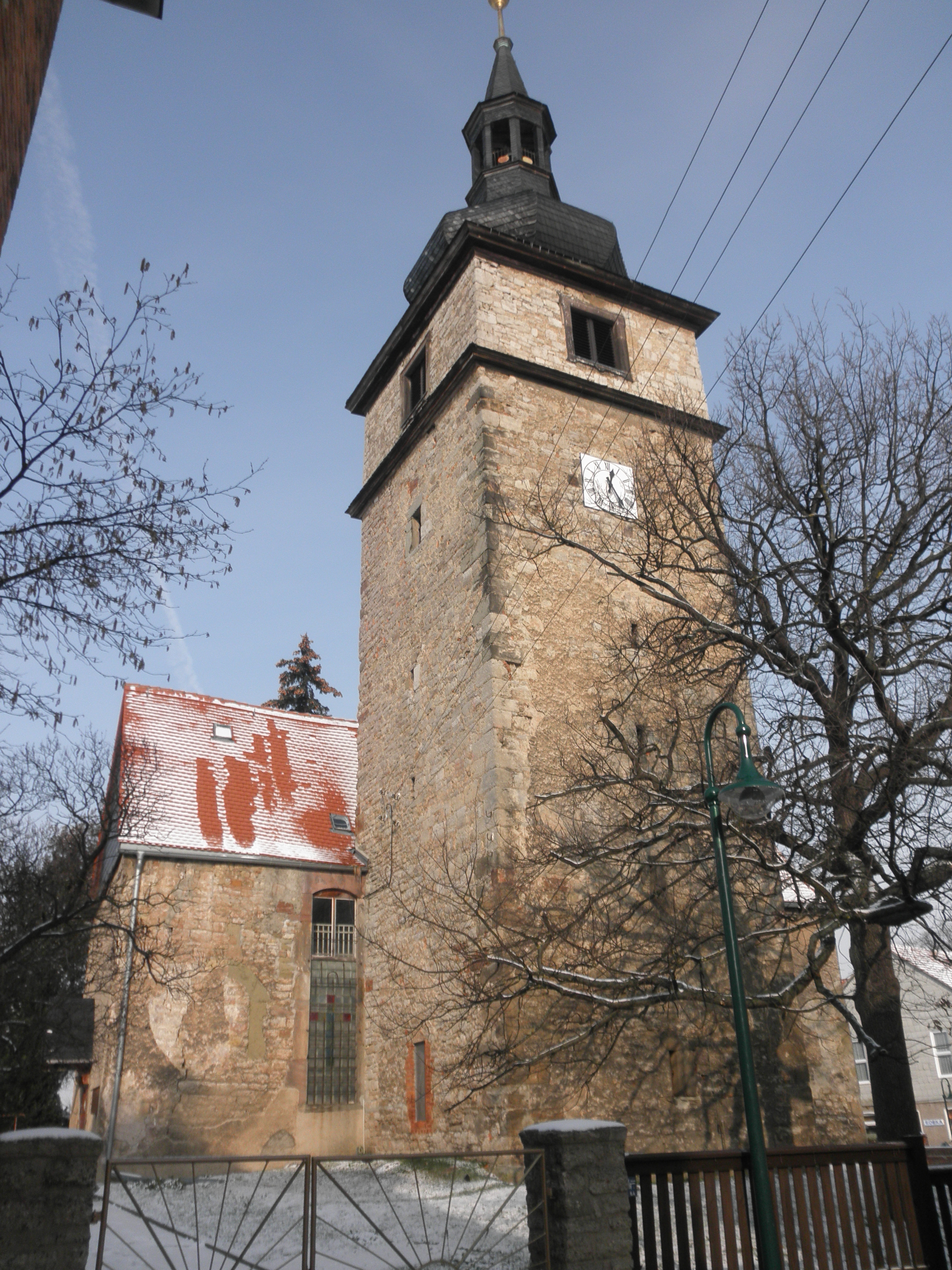 Church in Utzberg in Thuringia